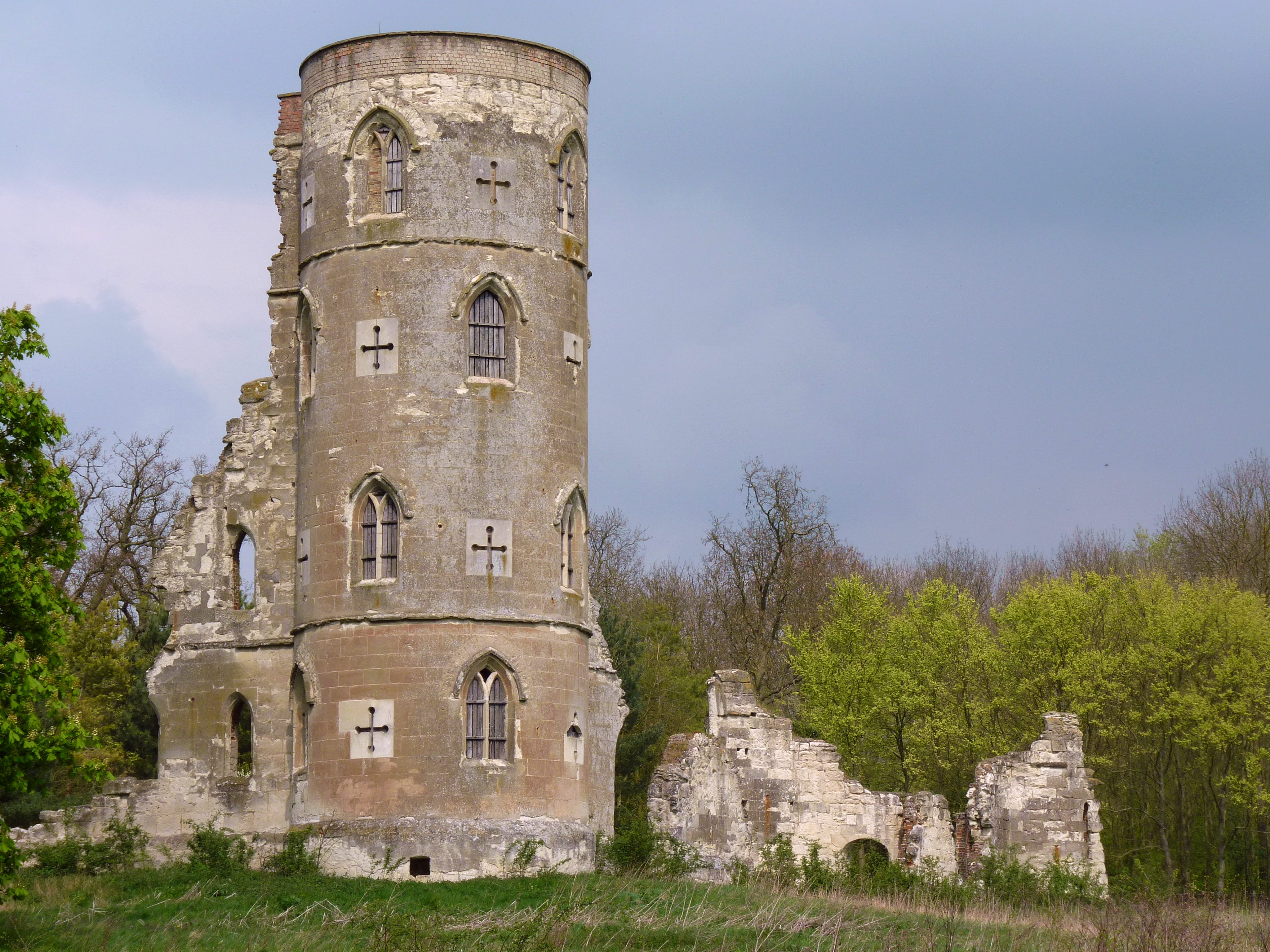 Folly Castle About 3/4 Mile North Of Wimpole Hall Wikidata has entry Q17550767 with data related to this item.